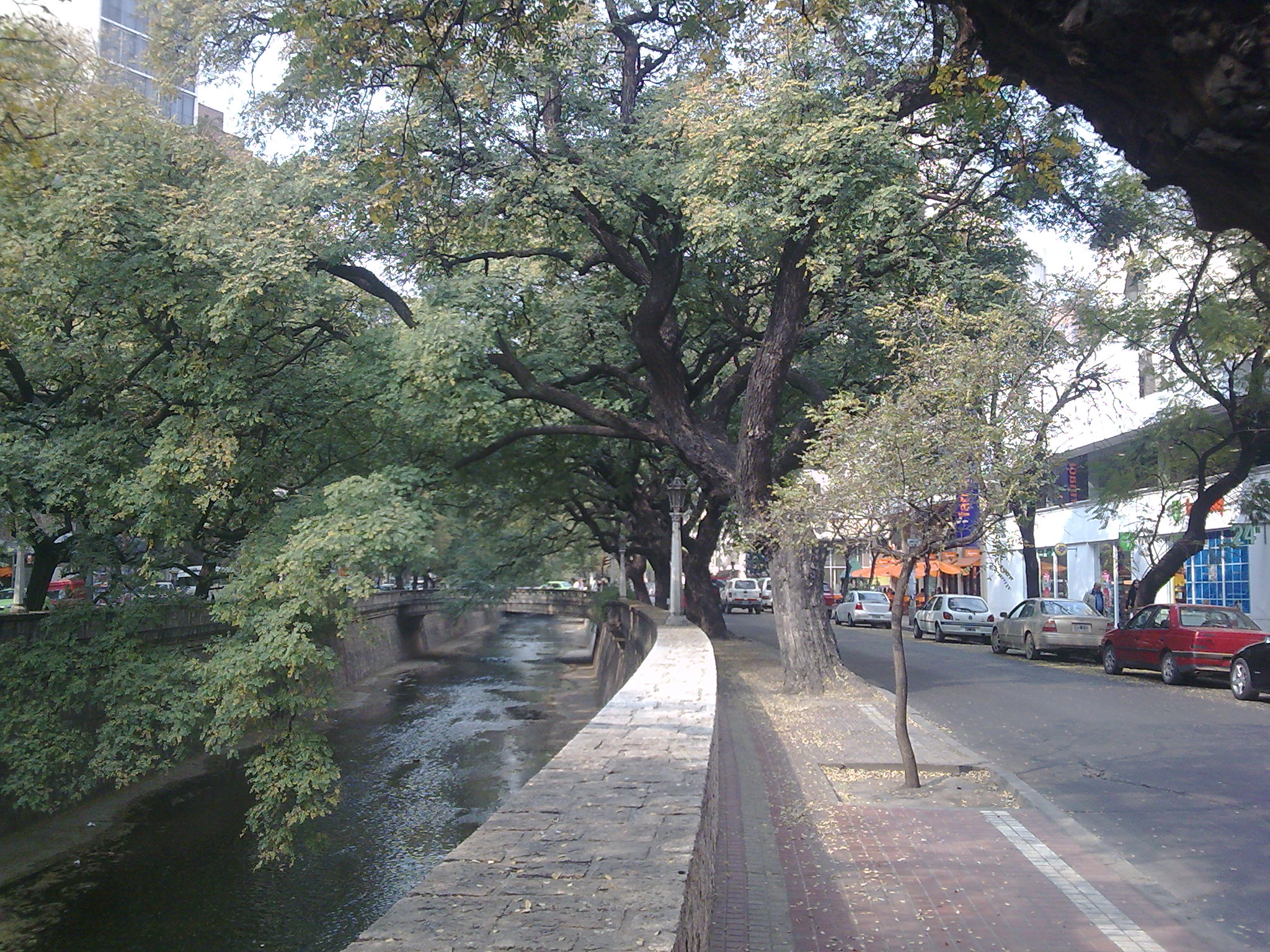 La Cañada glen. Viewed from Figueroa Alcorta street. Cordoba, Argentina.